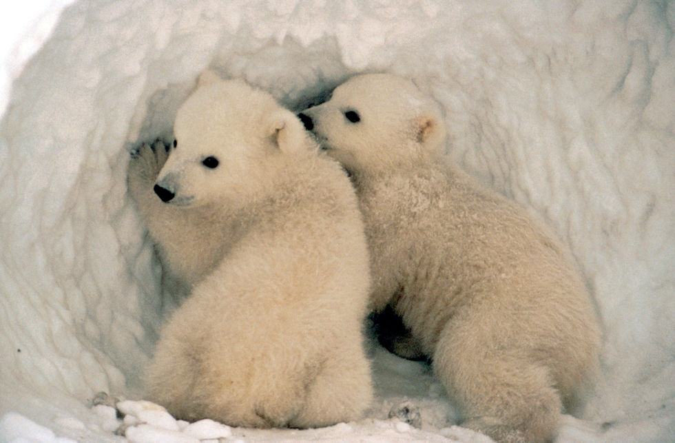 Polar bear cubs. Credit: USFWS